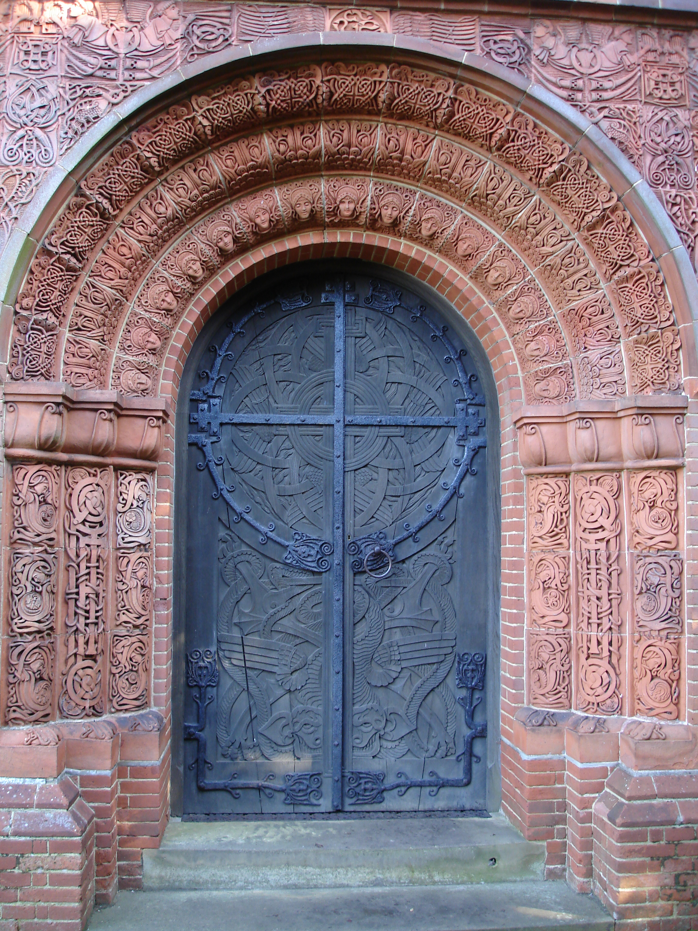 The door in Watts Mortuary Chapel located in the village of Compton in Surrey. Suzanne Knights, my photo, Oct 2006